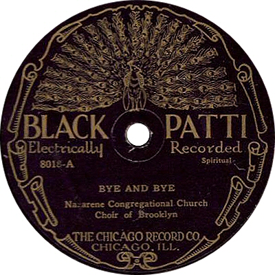 Label of "Black Patti Records" gramophone record; "Bye and Bye" performed by the Nazerine Congregational Church Choir of Brooklyn, 1927